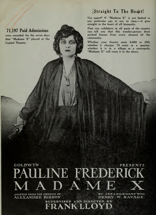 Pauline Frederick in Madame X (1920) directed by Frank Lloyd.